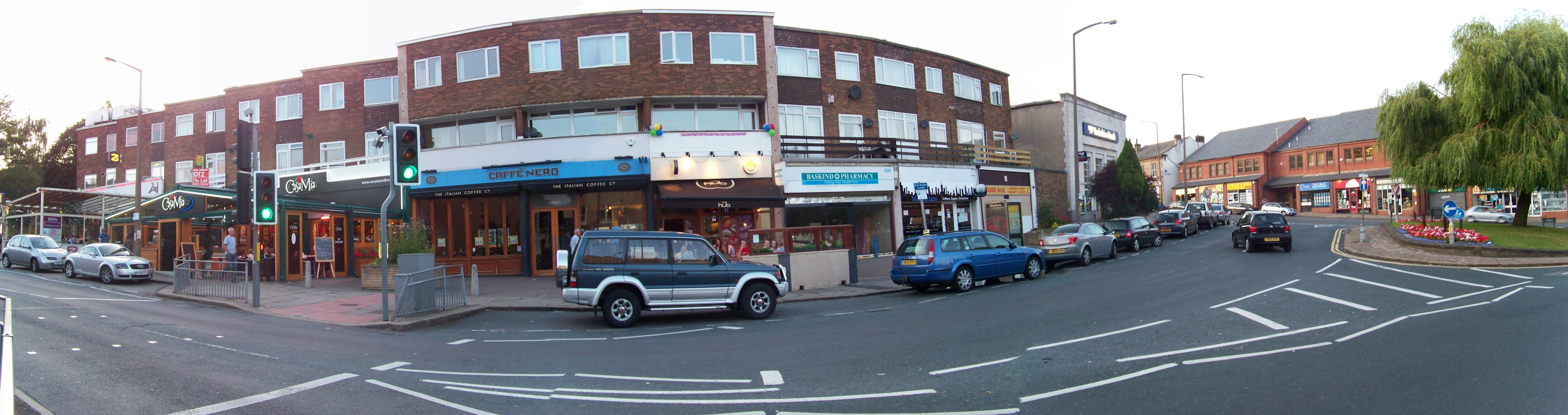 The Northeren side of Stainbeck Lane, Chapel Allerton, Leeds, West Yorkshire, near its junction with Harrogate Road, showing bars, restaurants, cafes and shops. The image was taken on the evening of Wednesday 15th July 2009.